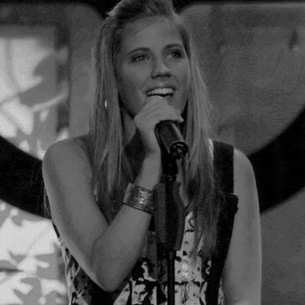 Sandén Family